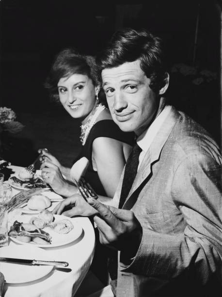 French actor Jean-Paul Belmondo with a friend in the Via Veneto, Rome, Italy, during the filming of Lettere di una novizia, 1960.